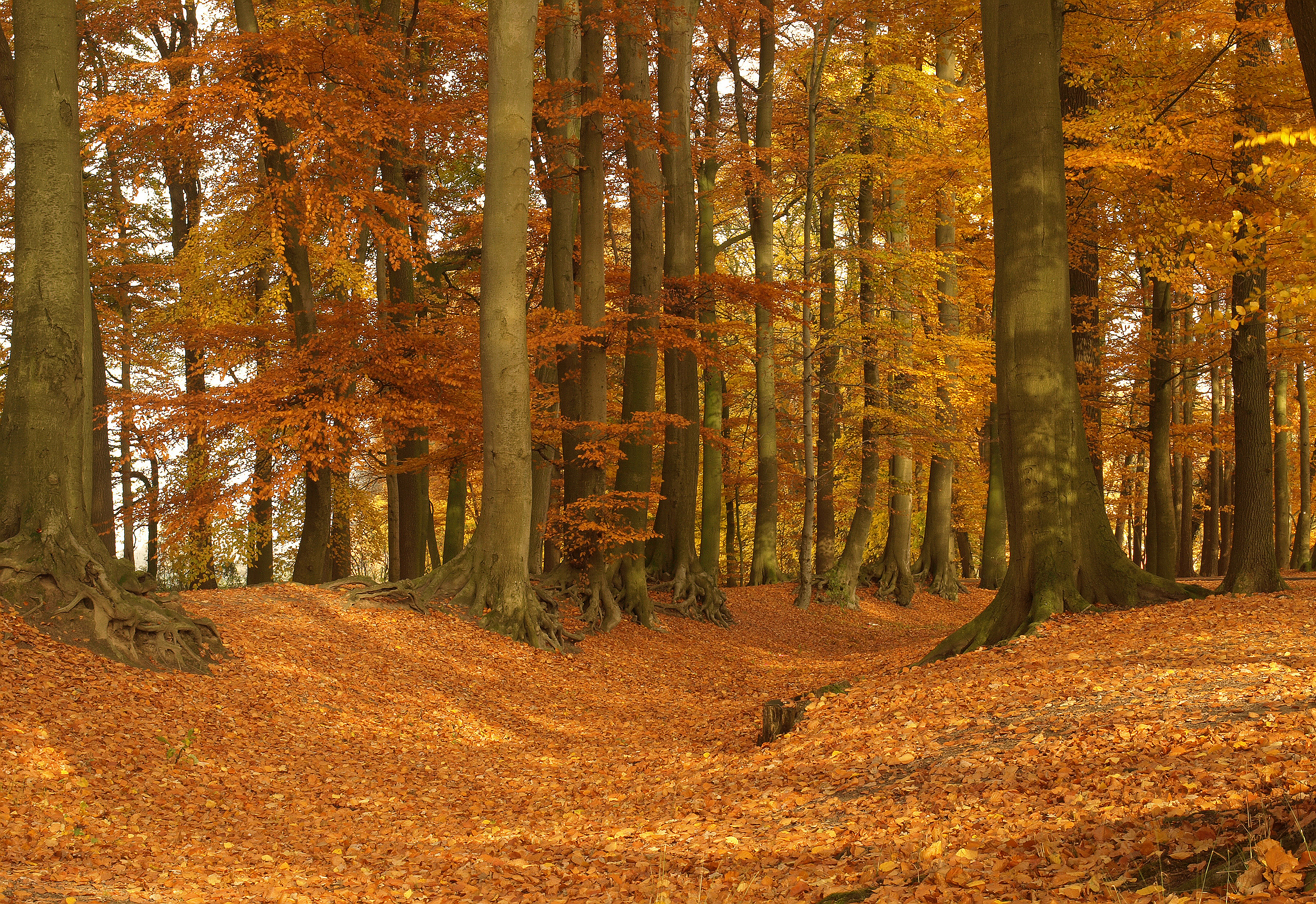 Beech trees at the "Karnickelberg" in Ahaus. The Karnickelberg area was in 2012 (when the picture was taken) part of the protected landscape area LSG-Grossflächiges LSG zwischen Epe, Heek, Ahaus, LSG-3808-009. After the protected landscape areas in the region have been restructured, it is now part of LSG Ahauser Aa.